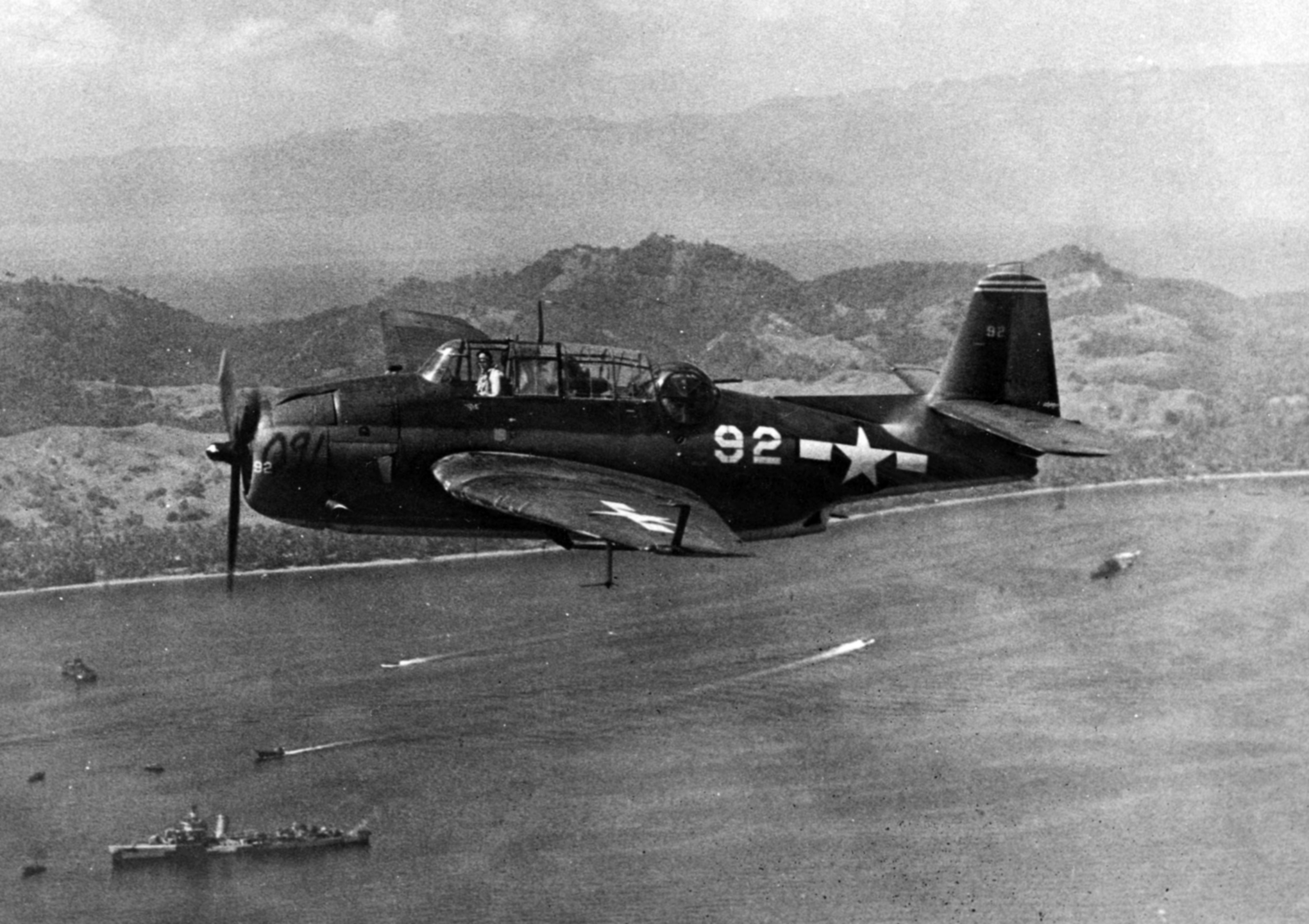 A U.S. Navy Grumman TBM-1 Avenger from Torpedo Squadron VT-26 over Panaon Island, Philippines. VT-26 was assigned to the the escort carrier USS Santee (CVE-29) in 1944 and in July-August 1945.